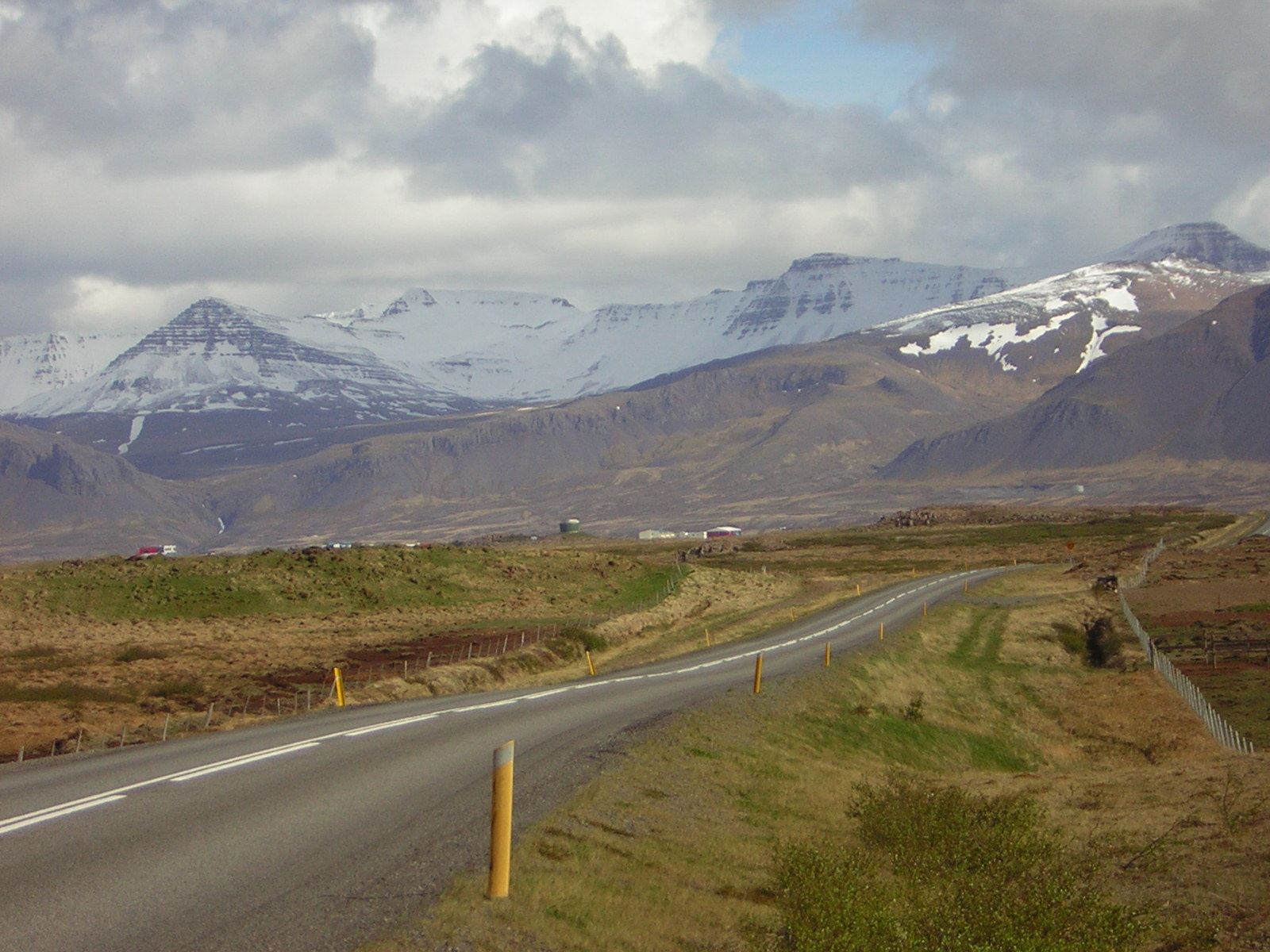 Iceland Street no.1